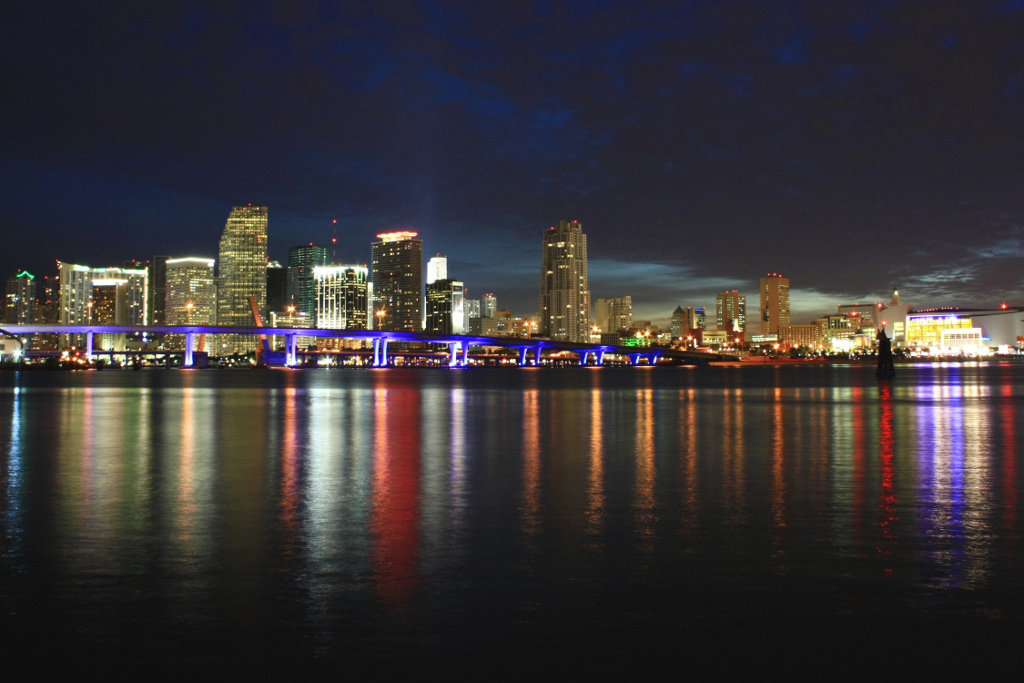 Skyline at twilight, Miami, Florida, USA. The downtown skyscrapers and the Port Boulevard Bridge are colorfully illuminated after sunset. The view is from Watson Island across Biscayne Bay.